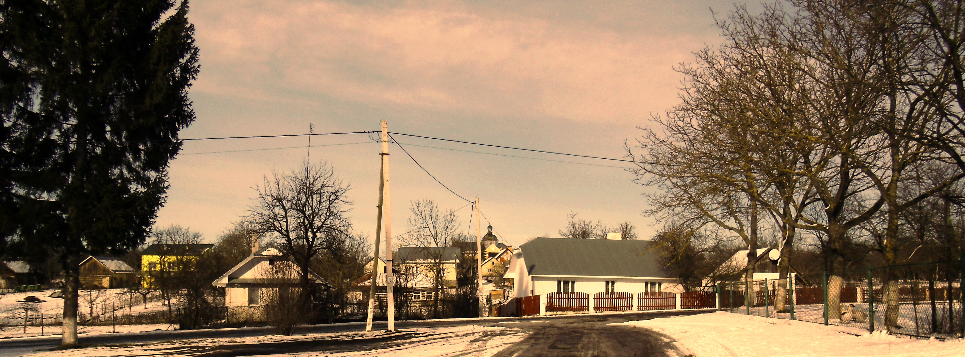 General view of the village Kulchytsi, Sambir Raion, Lviv Oblast.